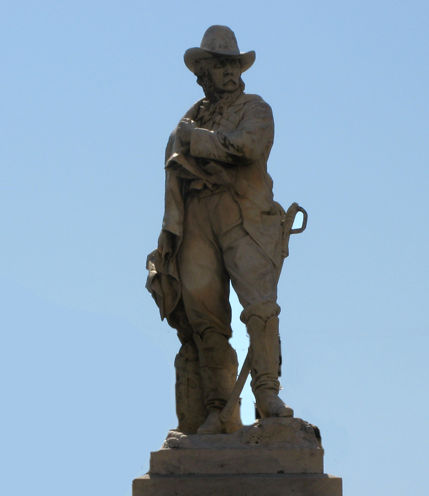 Monument to general Francesco Stocco, in Catanzaro (Italy)